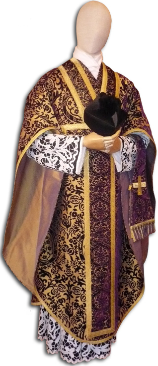 Borromaeo-style chasuble in silk cutted velvet